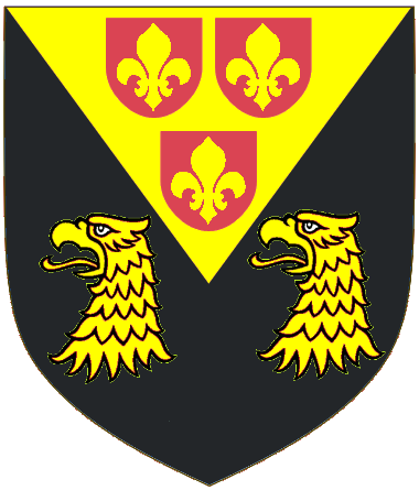 Shield of arms of The Lord Baillieu